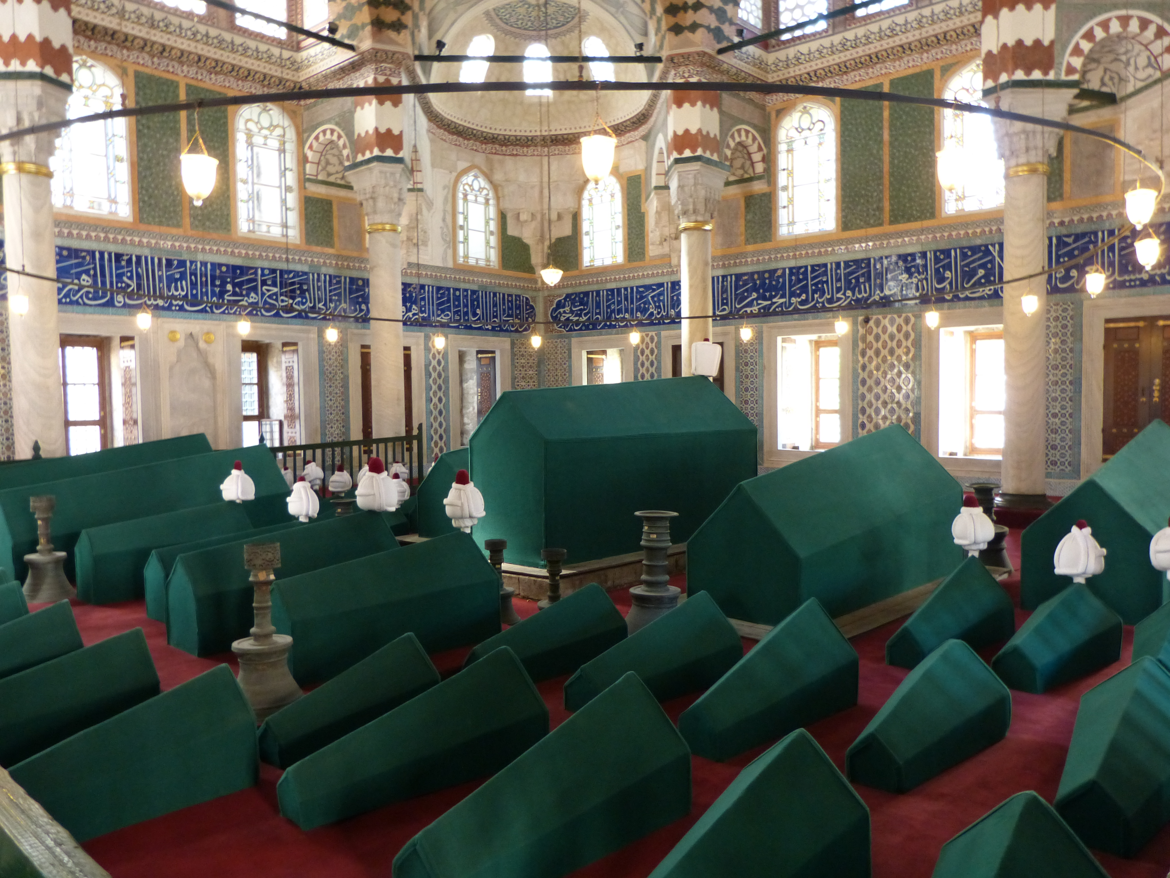 Türbe (Tomb) of Sultan Selim II. (1524–1574)